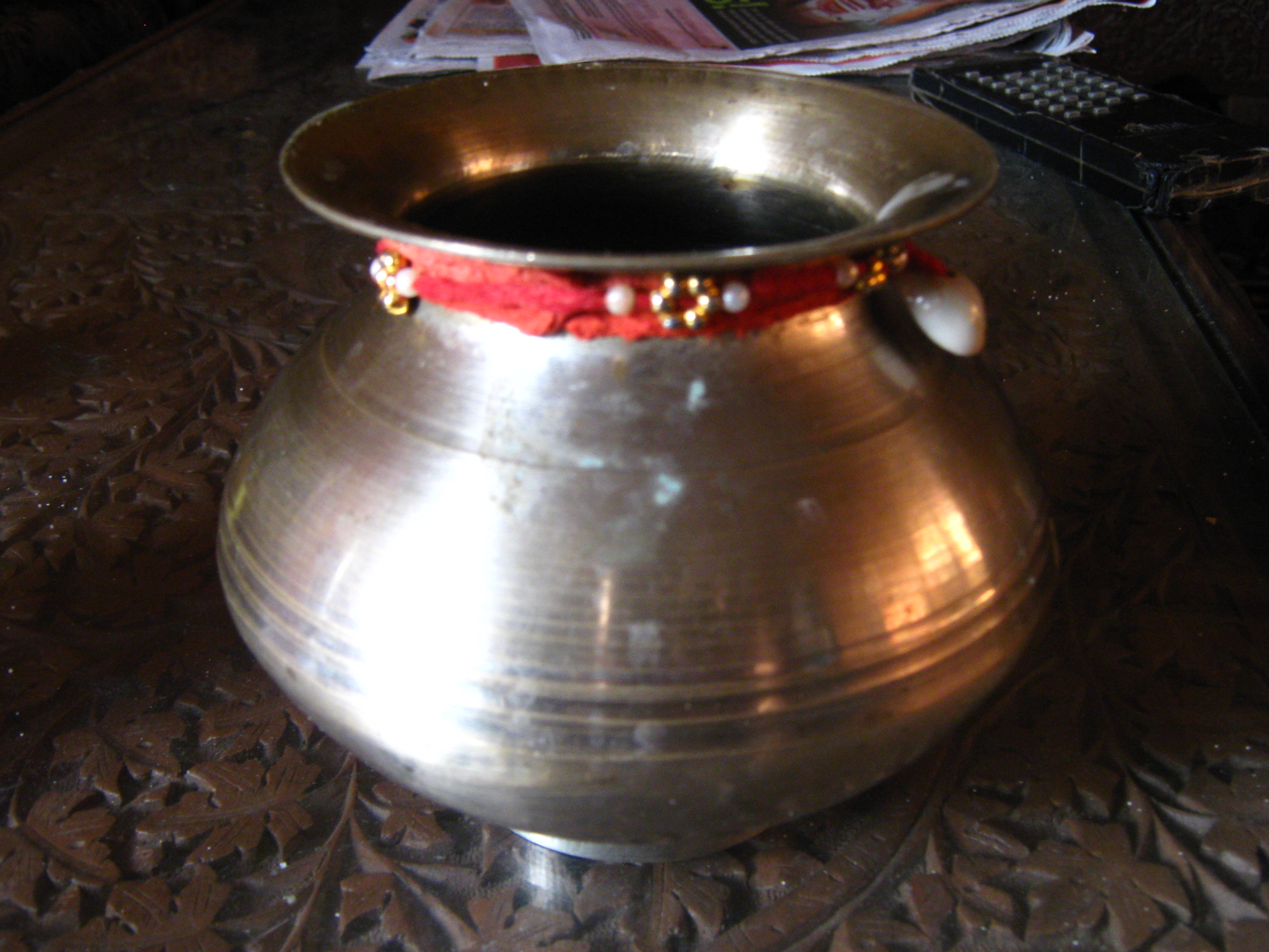 utensils used in Indian kitchen.